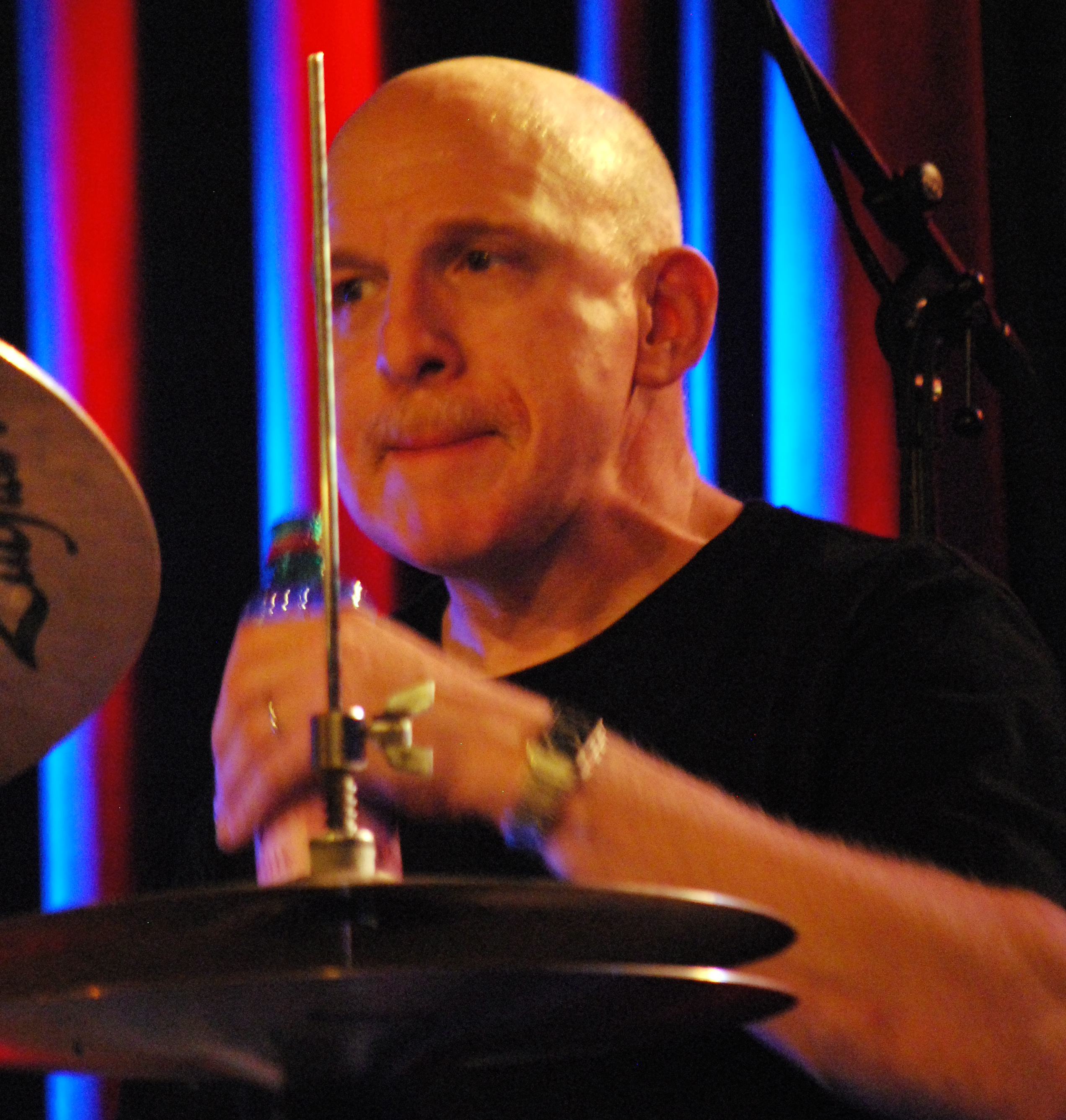 Adam Nussbaum, Treibhaus Innsbruck 2010. Concert with Gwilym Simcock, Mike Walker, Steve Swallow